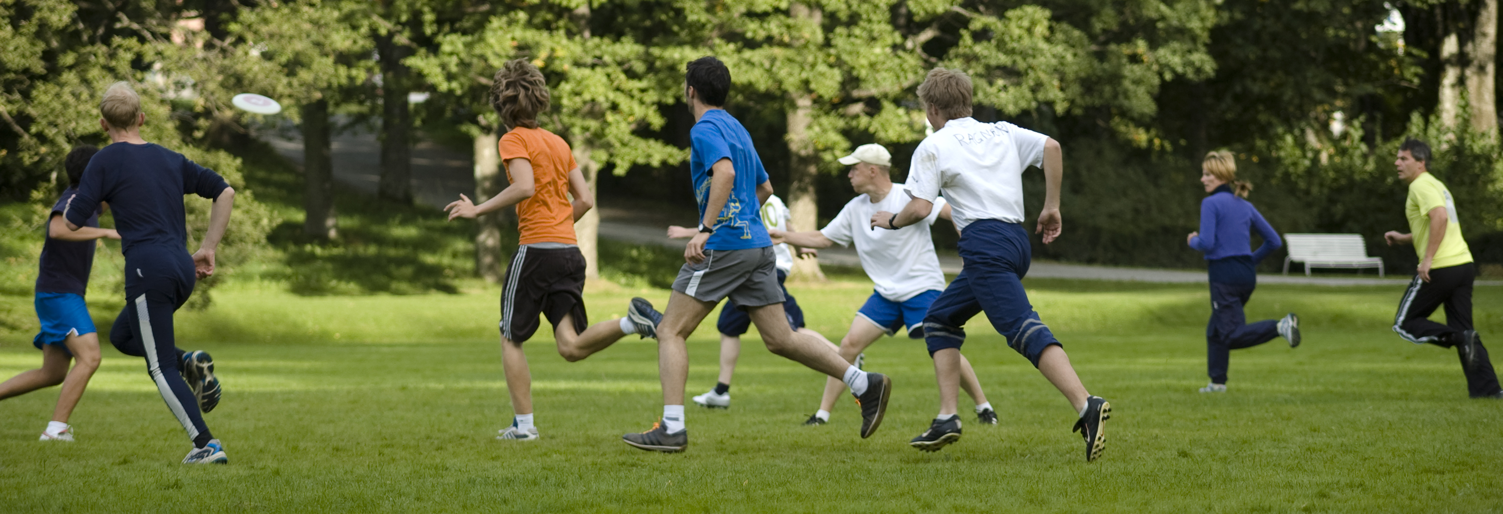 Wizards of Ås ultimate frisbee team practice on the Norwegian University for Life Sciences Campus. September 2007.